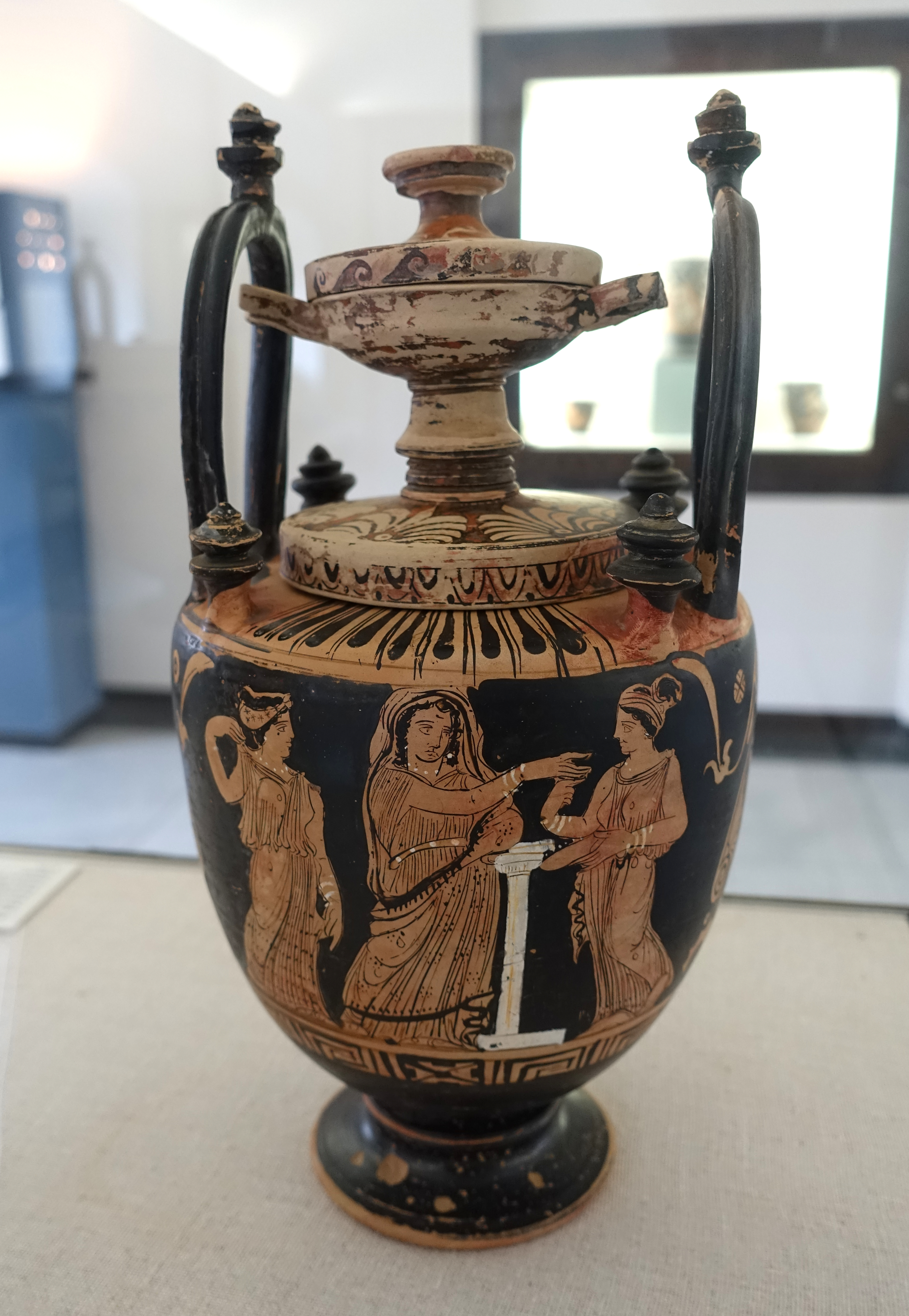 Exhibit in the Martin von Wagner Museum - Würzburg, Germany.